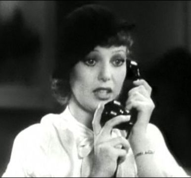 Cropped screenshot of Loretta Young from the trailer for the film She Had to Say Yes